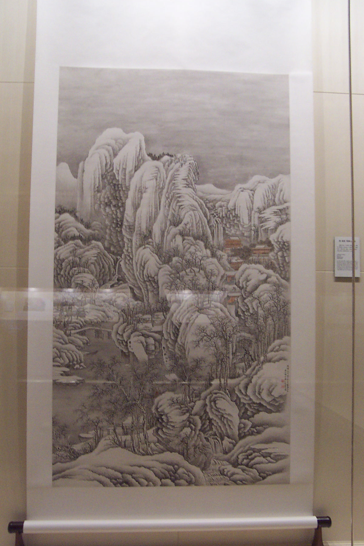 Chinese hanging scroll painting at the Shanghai Museum, China